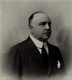 Portrait of Italian writer Nicola Daspuro (1853–1941)